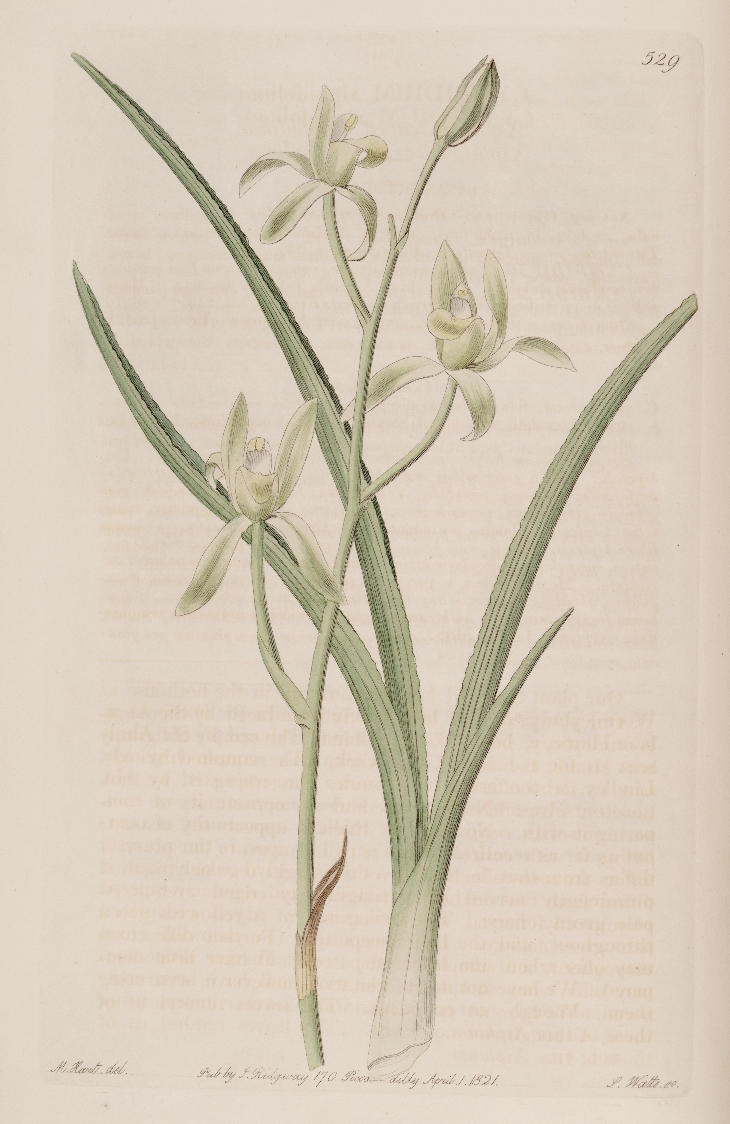 Illustration of Cymbidium ensifolium subsp. ensifolium (as syn. Cymbidium xiphiifolium)